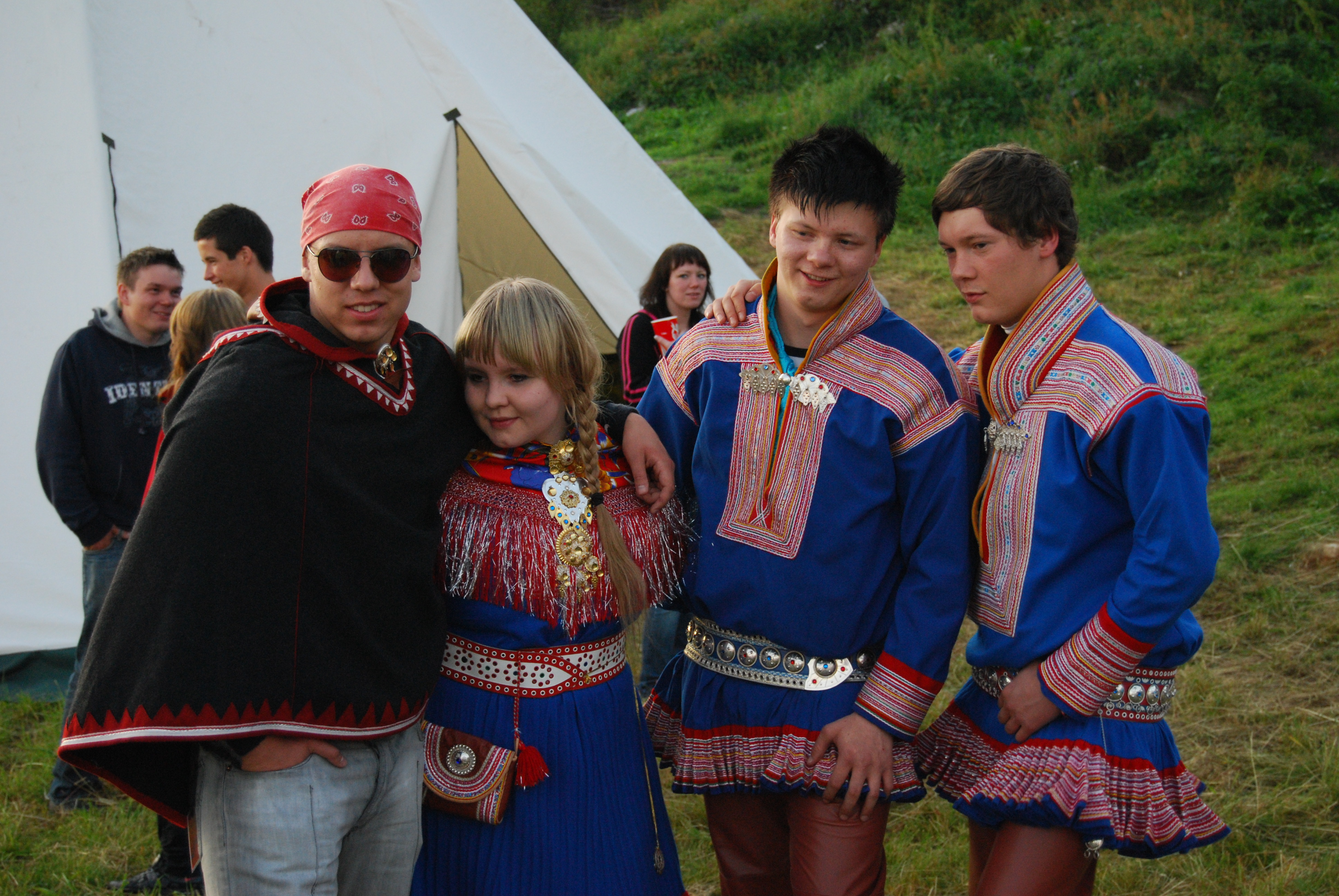 Musical group Duolva Duottar on Márkomeannu, Norway.